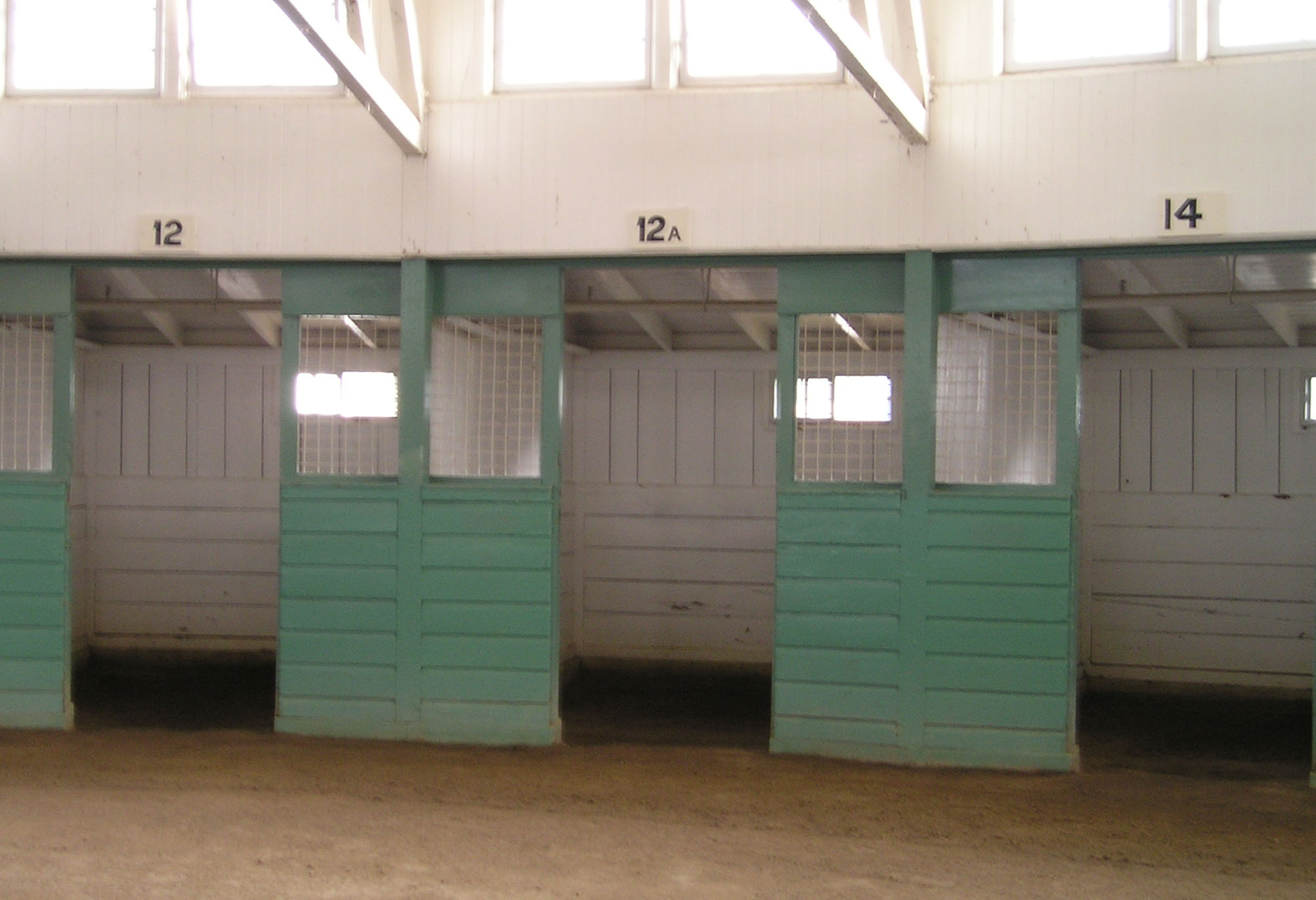 No number 13 Santa Anita Park receiving barn showing superstition.Thirteen... Taken by Ellen Levy Finch Feb 11, 2006